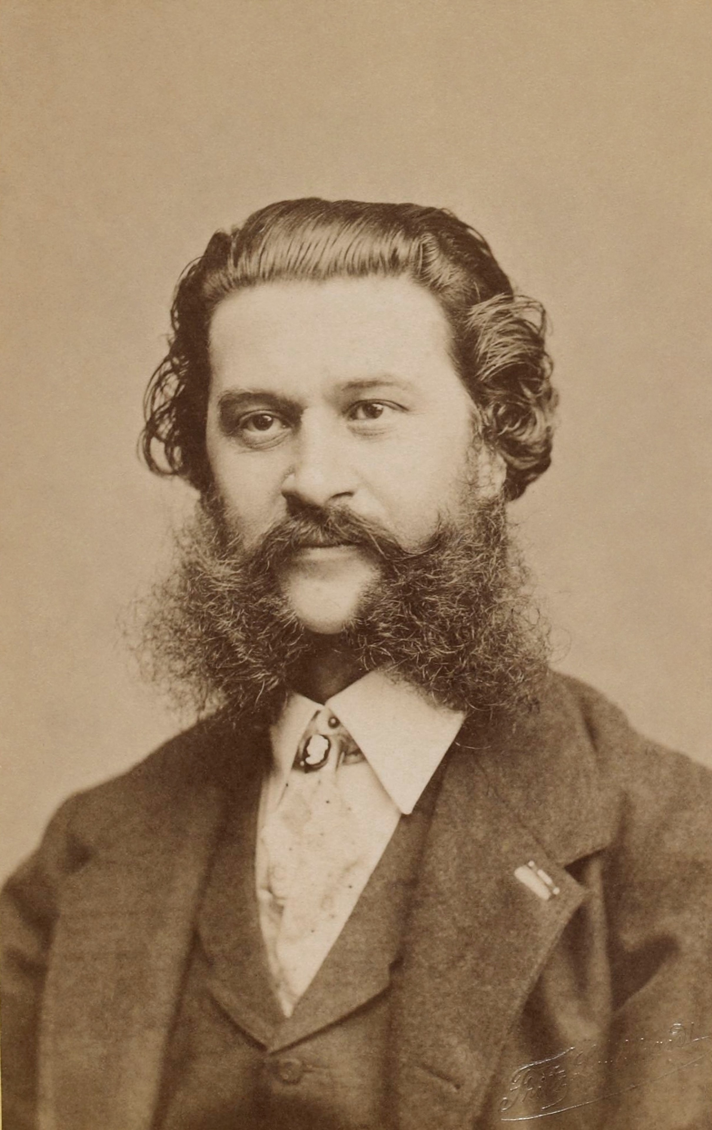 Photograph of Johann Strauss II by Fritz Luckhardt